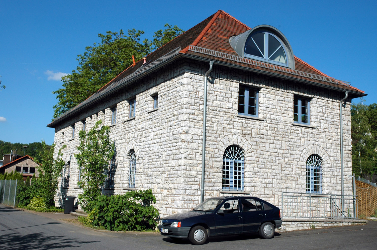 former station building Adelsheim Ost, built in 1869.